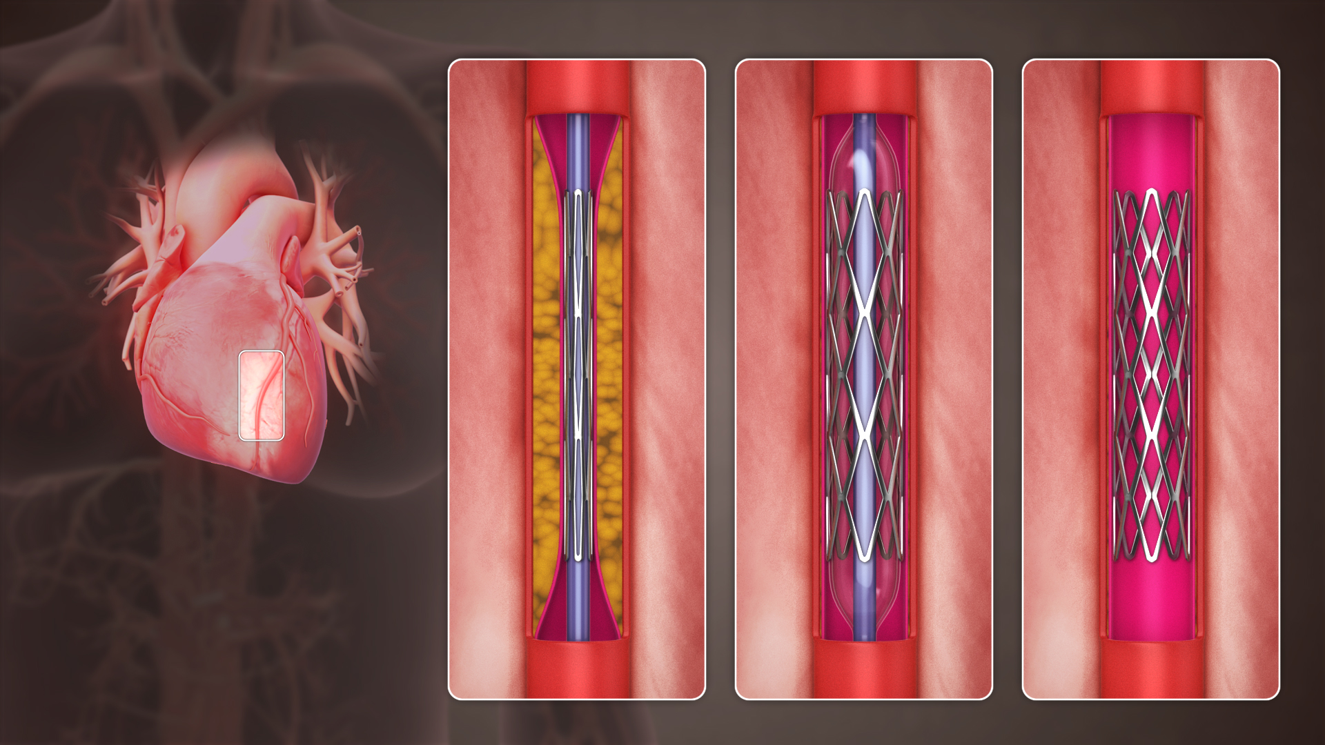 3D Medical Animation still shot of procedure of Percutaneous coronary intervention (formerly known as angioplasty with stent)